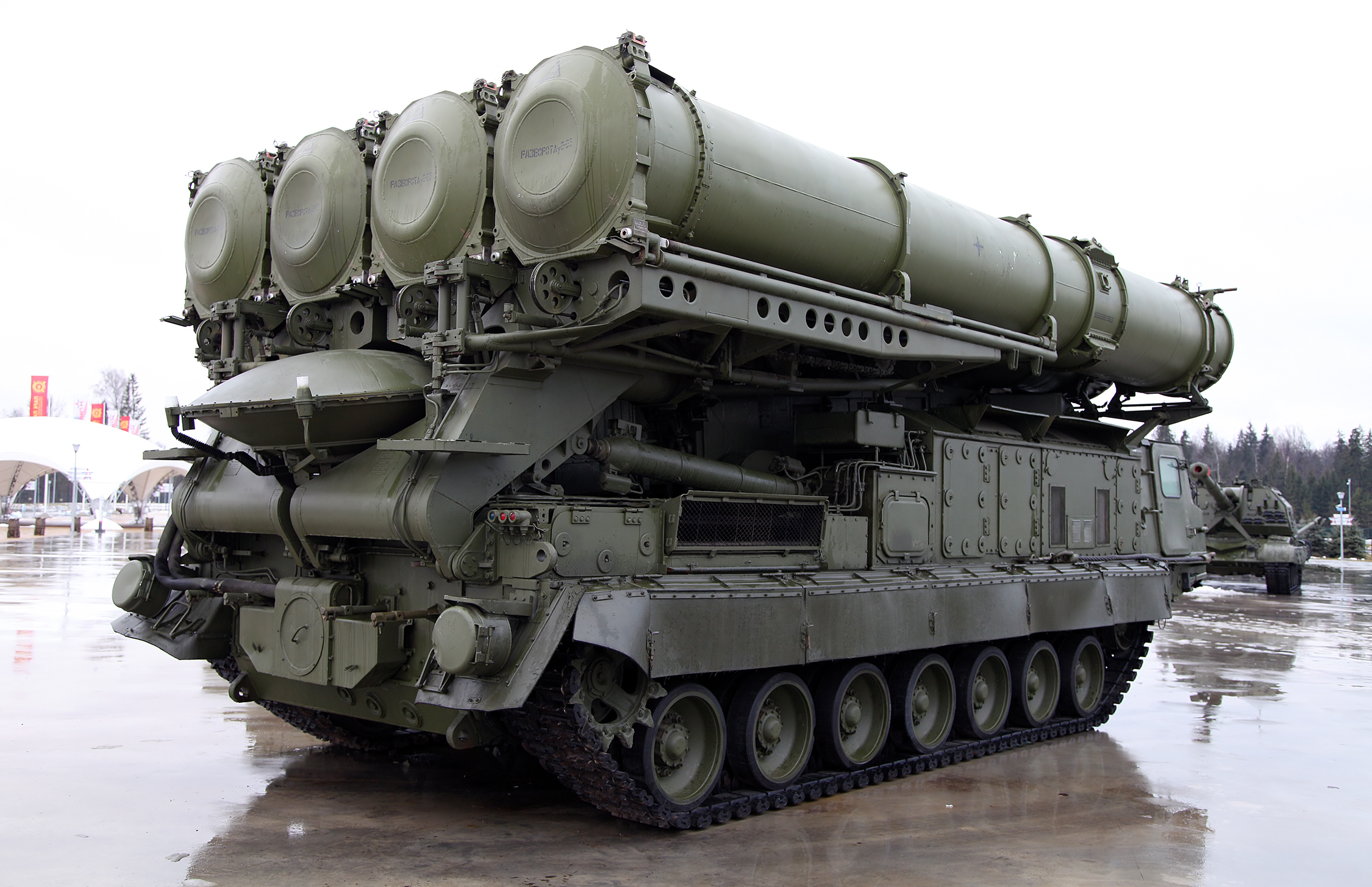 9A83 TELAR for S-300V system